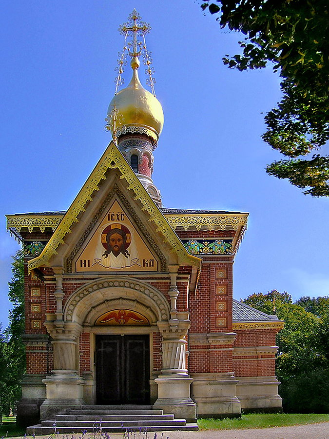 The Russian Chapel in Bad Homburg vor der Höhe, Germany